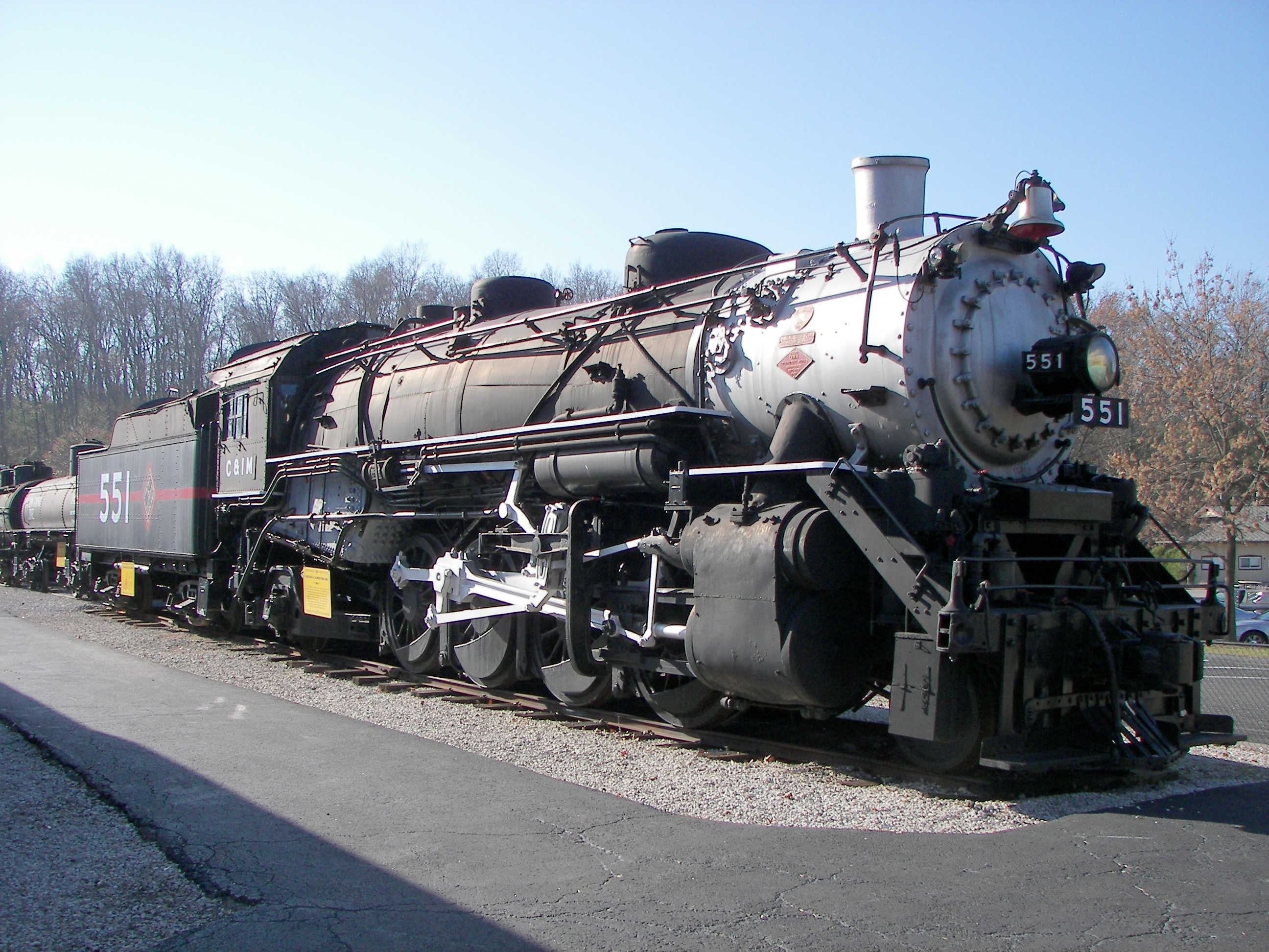 USRA Light Mikado steam locomotive with a 2-8-2 wheel arrangement, located at the Museum of Transportation in St. Louis, MO. Contrast was adjusted to lighten the shadows; otherwise the image is exactly as recorded by the camera.